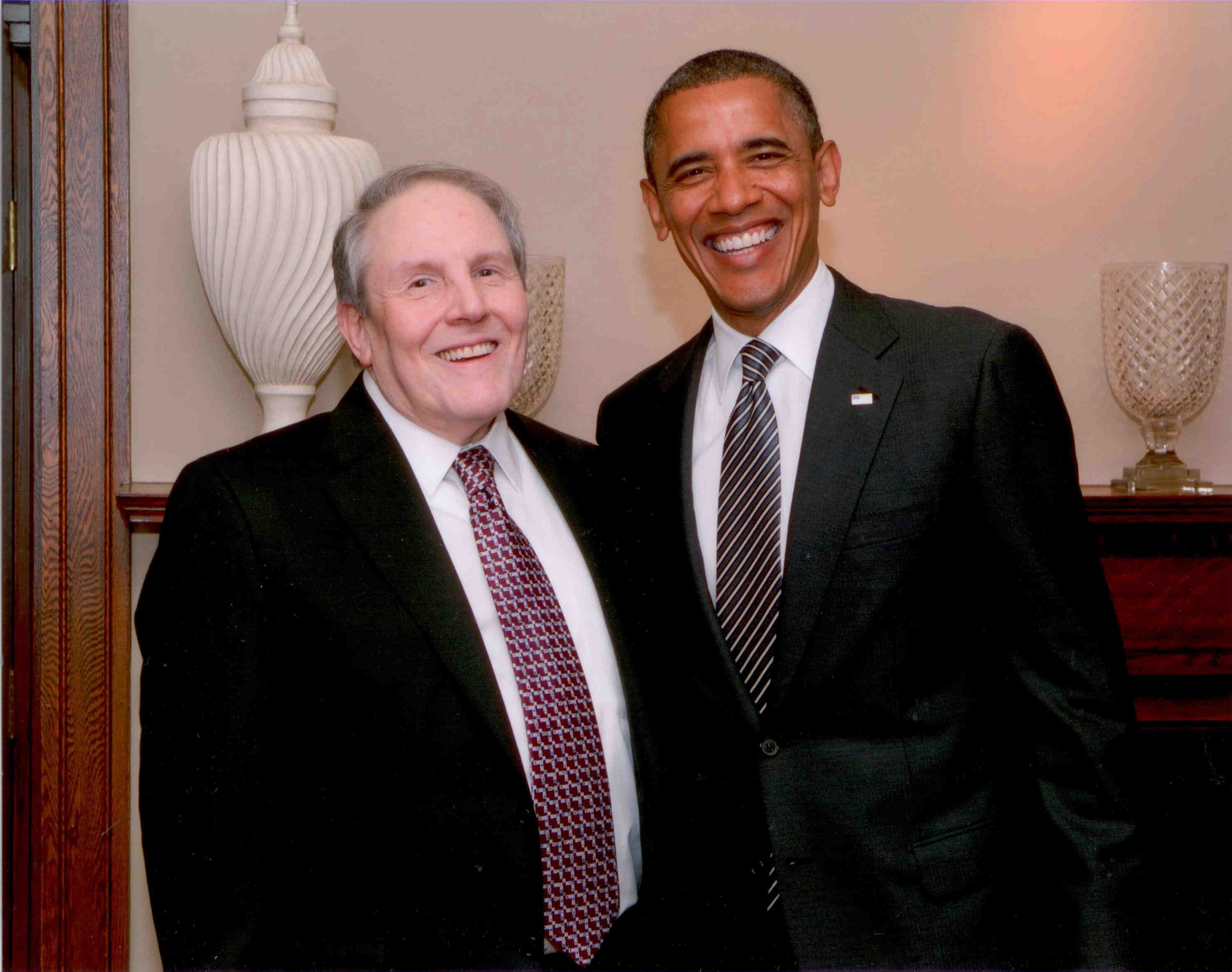 Jeffrey A. Legum and President Barack Obama